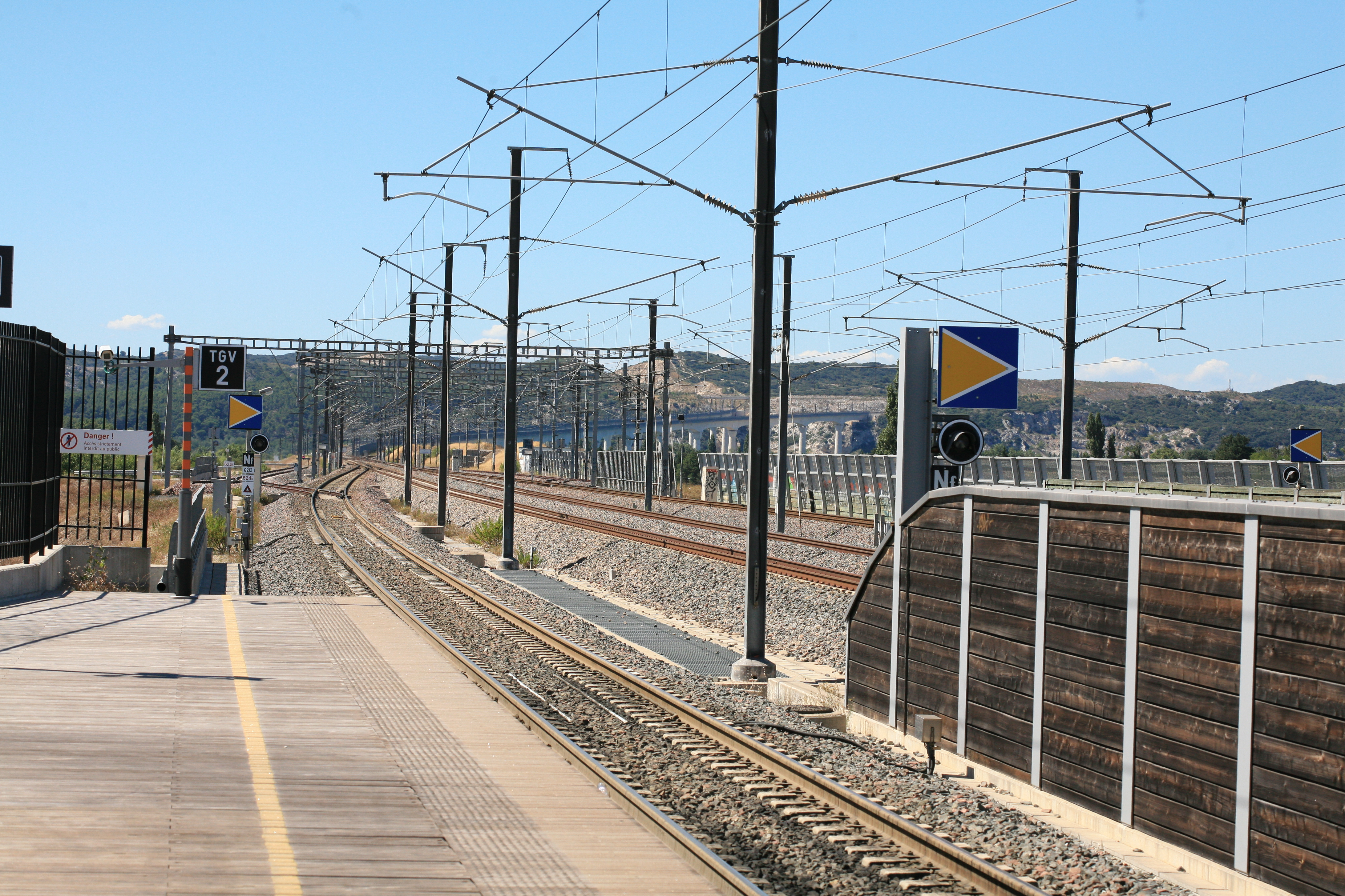 Looking west from the Avignon TGV train station in Vaucluse, France.